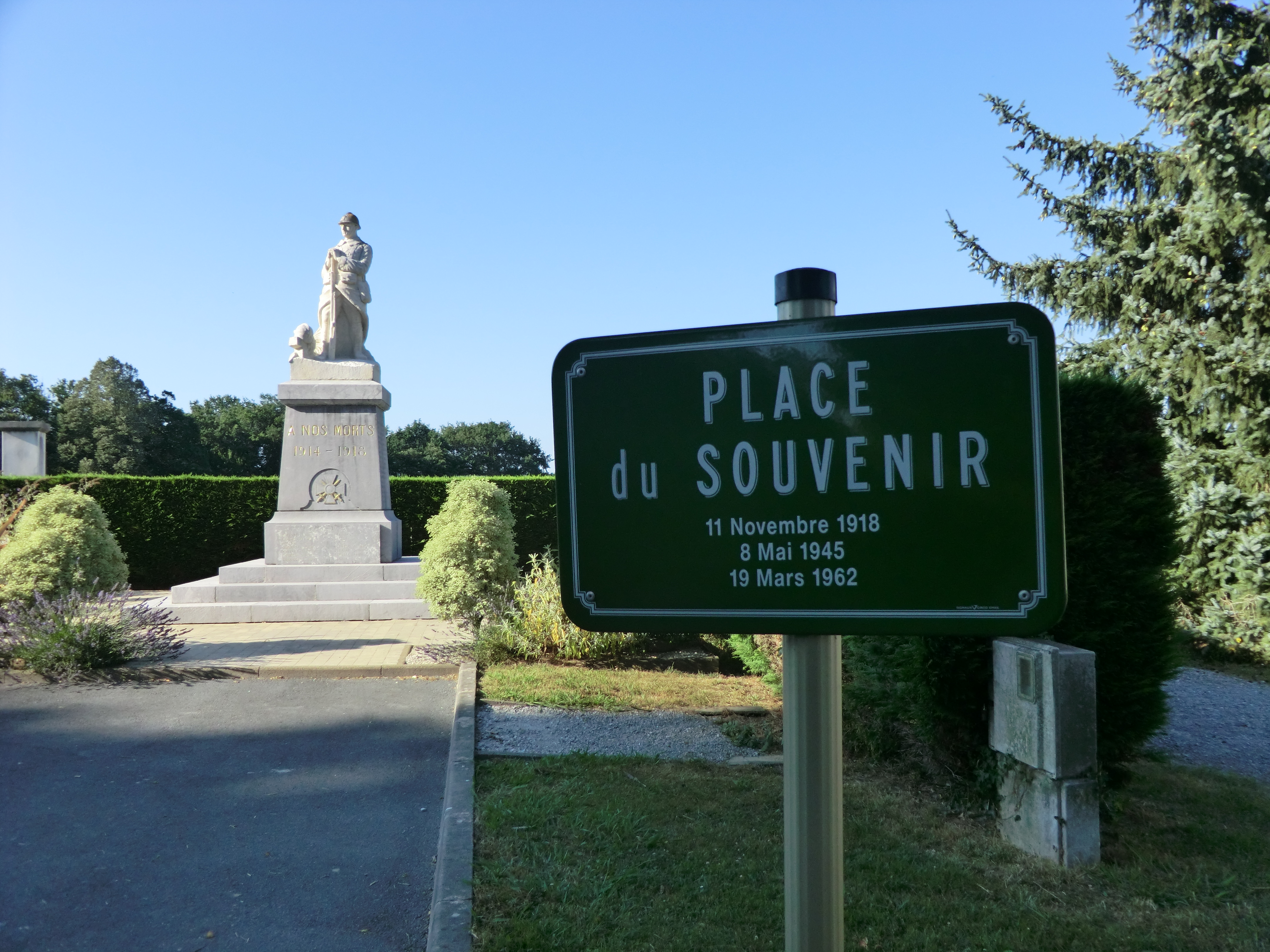 War memorial of Saint-Martin-de-Seignanx.